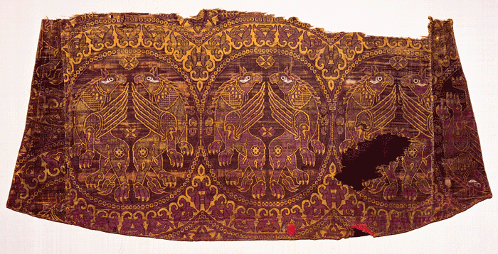 SION (SWITZERLAND) / ÉGLISE DE VALÉRE / ABEGG-STIFTUNG, RIGGISBERG This fragment from an 11th-century Byzantine robe shows griffins embroidered on a delicate silk woven of murex-dyed threads. It was in the eastern Roman empire of Byzantium that the symbolic power of murex purple reached its apogee.